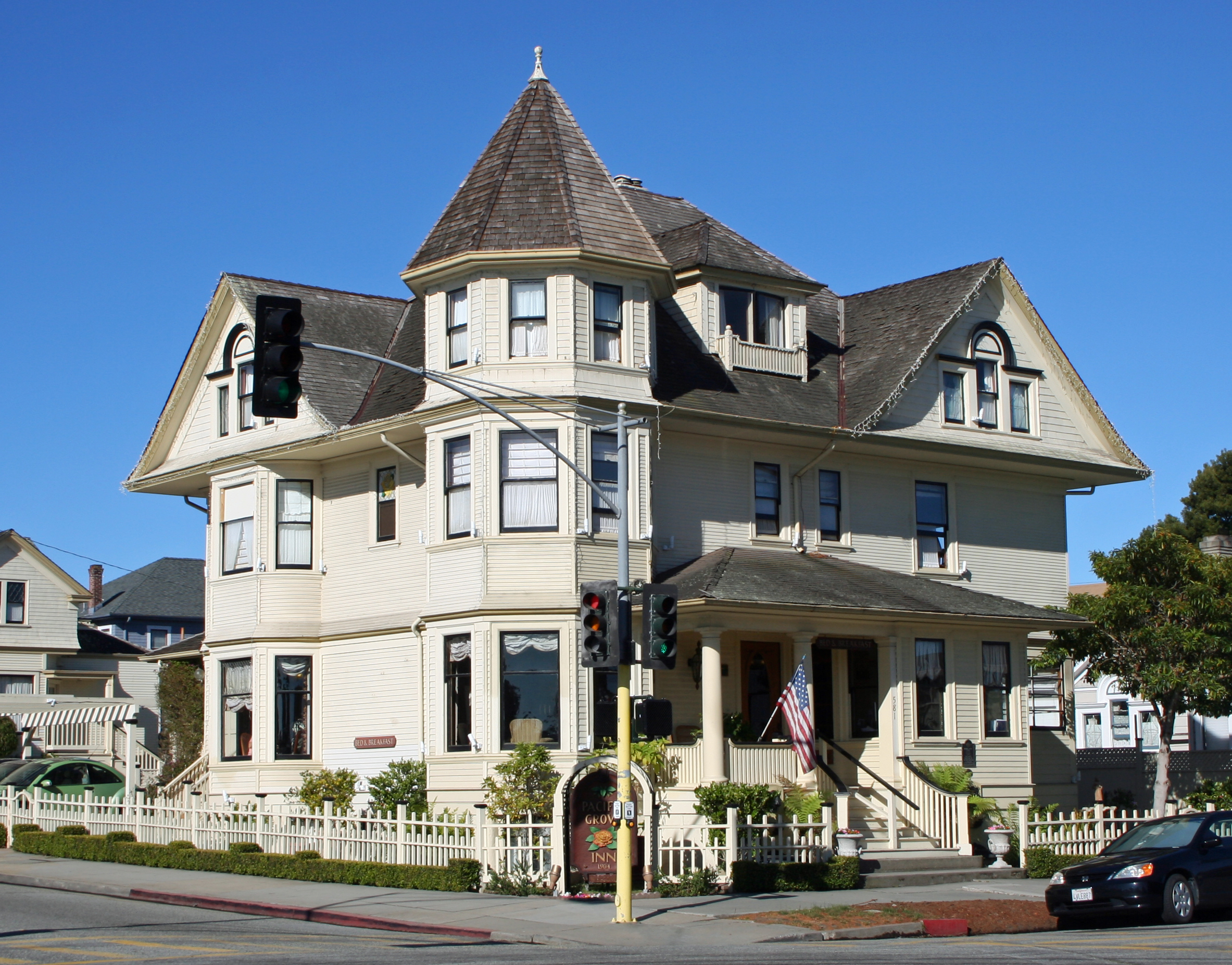 The Frank LaVerne Buck House, located at Pine Avenue in Pacific Grove, California.